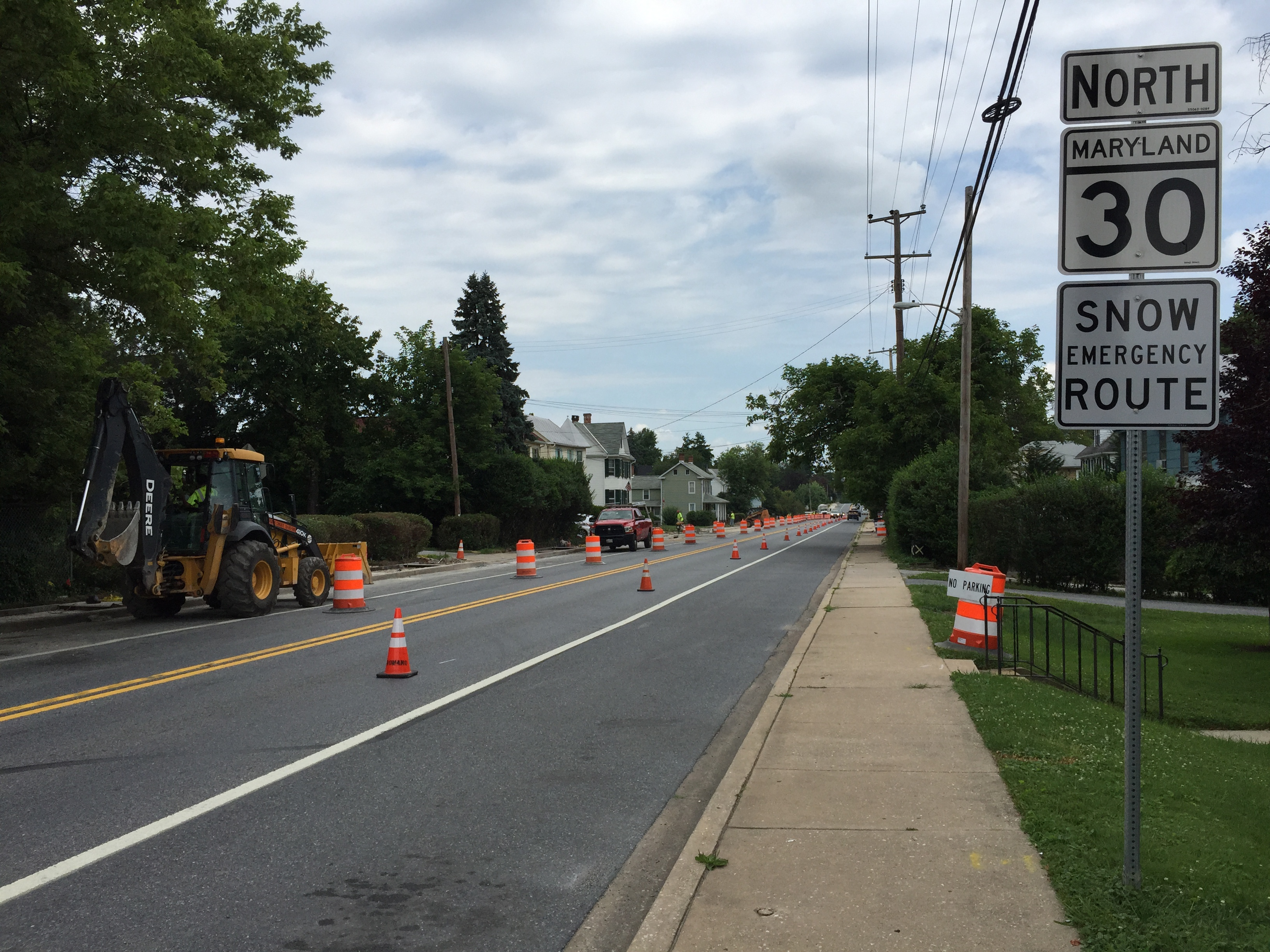 View north along Maryland State Route 30 (Hanover Road) just north of Maryland State Route 140 (Westminster Pike) in Reisterstown, Baltimore County, Maryland